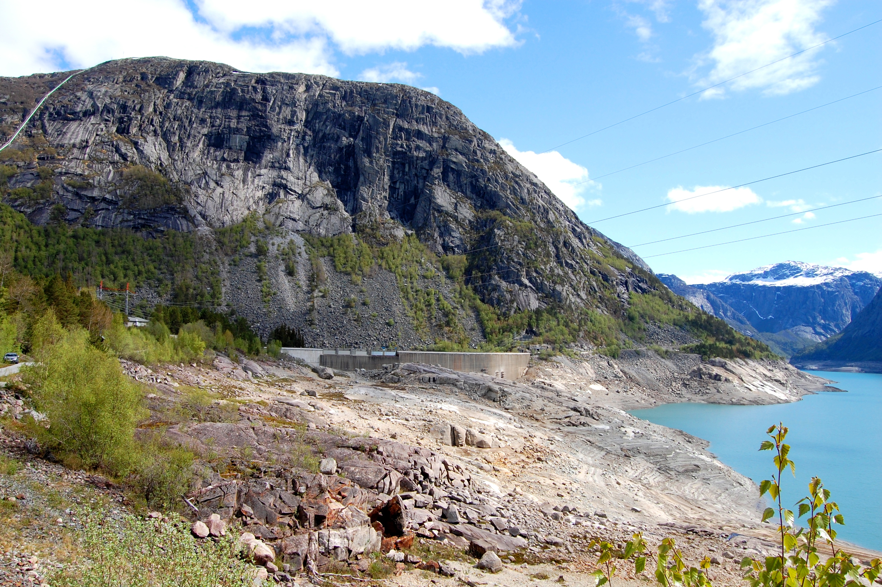 Ringedalsdammen